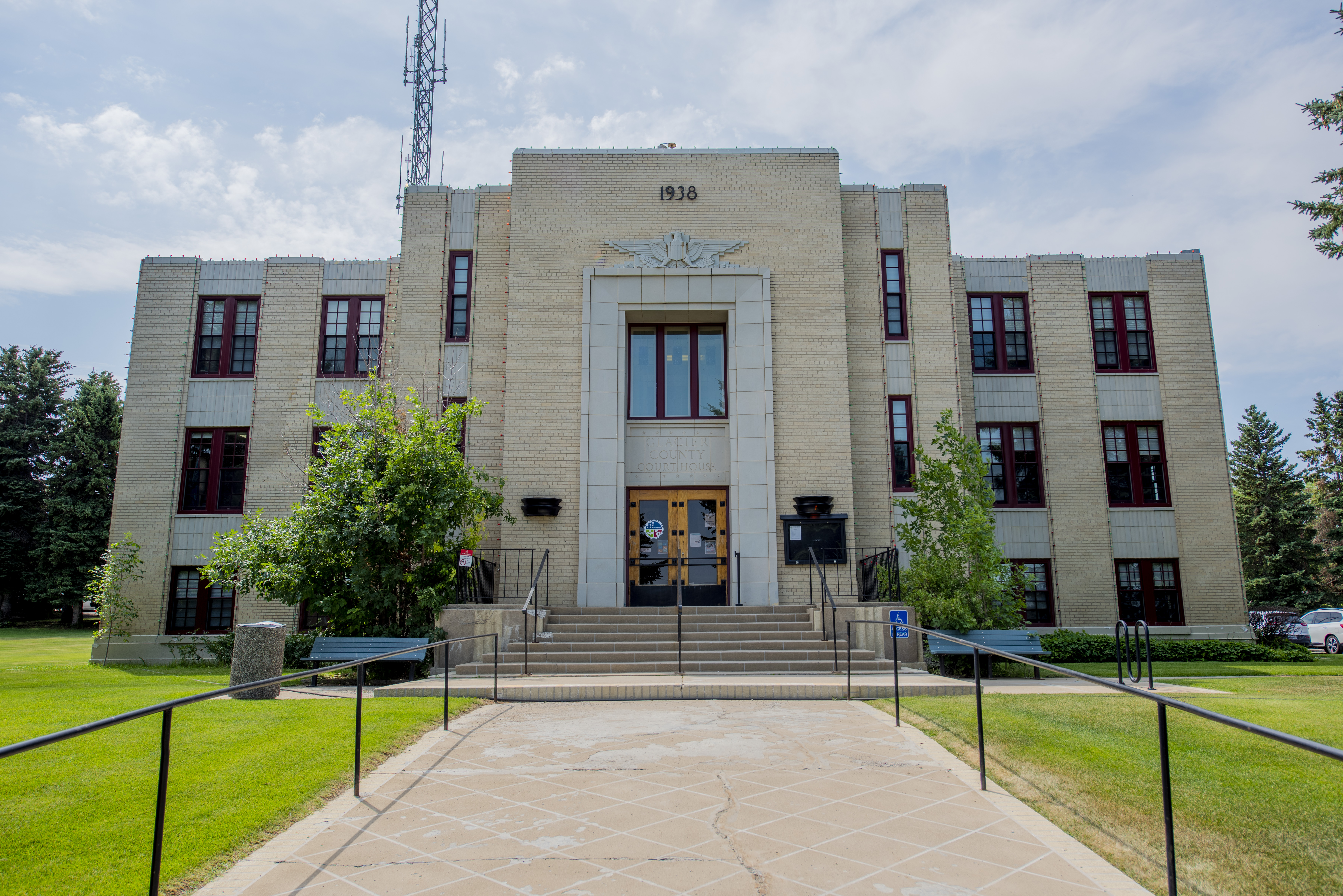 Photograph of the Glacier County Courthouse in Cut Bank, Montana. Image taken in July 2020.